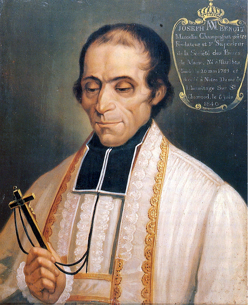 Official portrait of Marcellin Champagnat (1840), by M. Ravery